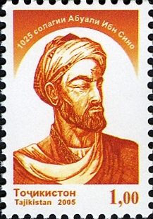 Stamps of Tajikistan